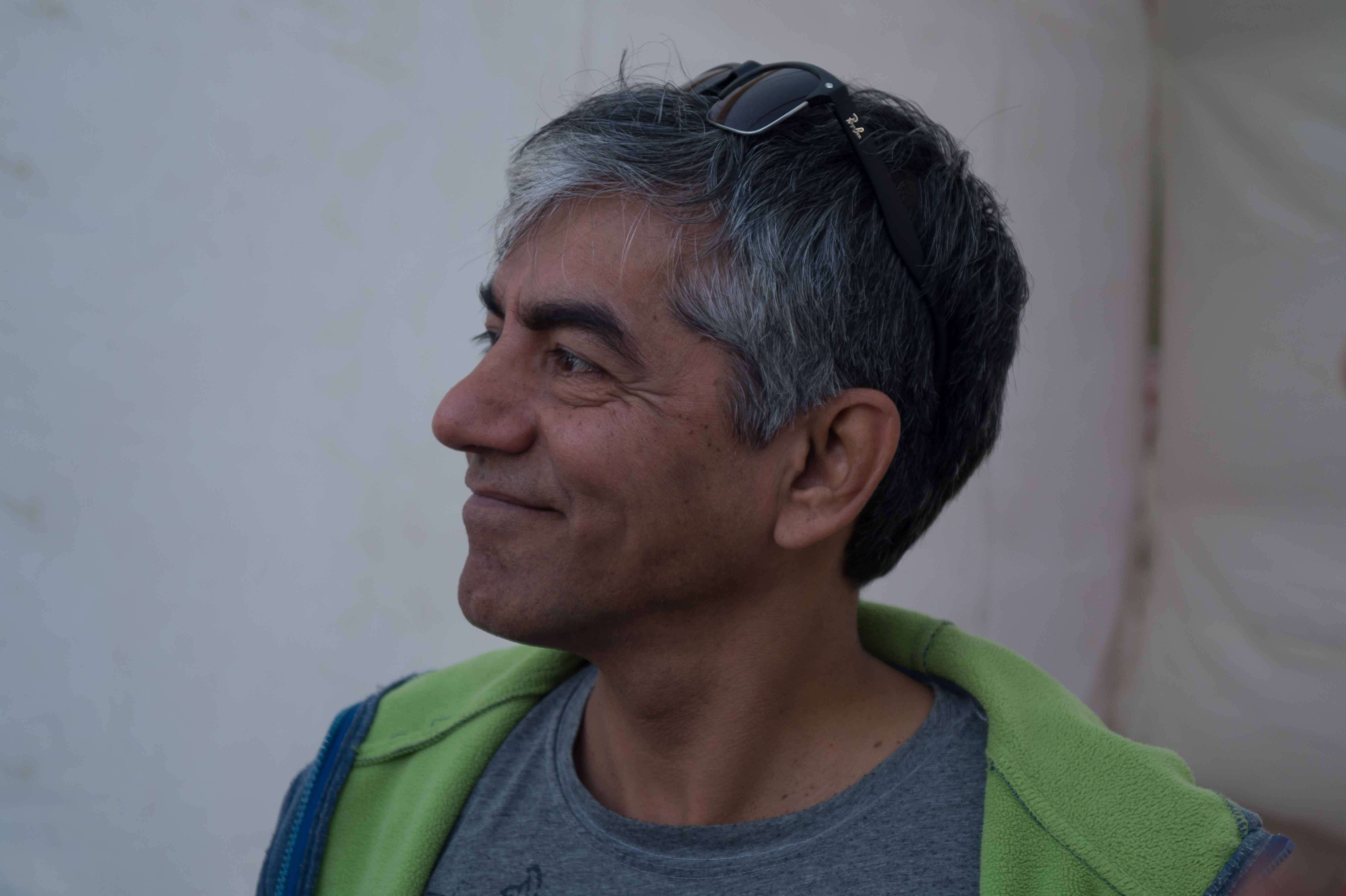 Asif Basra at DIFF 2016